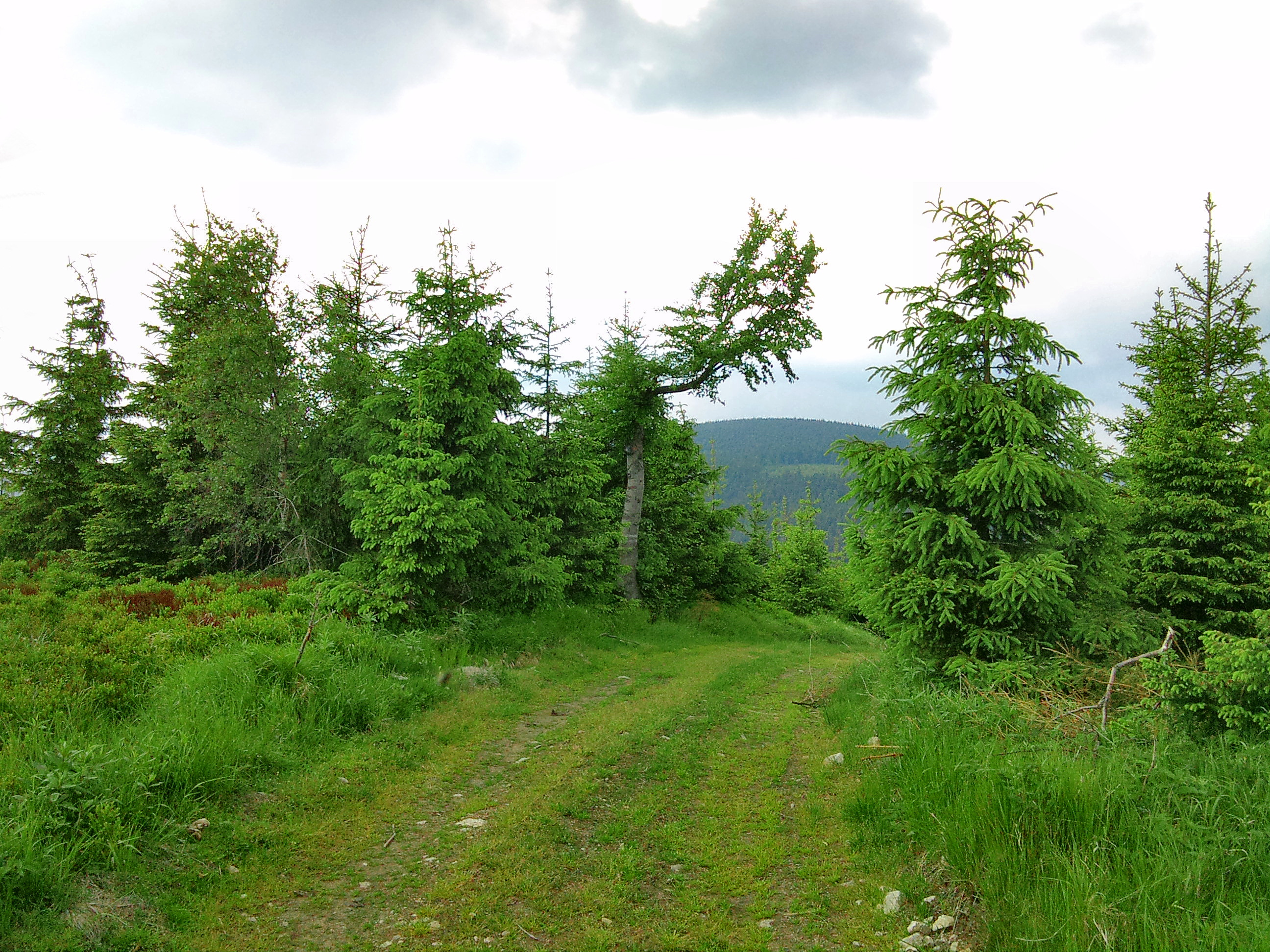 Srázná in Králický Sněžník Mountains